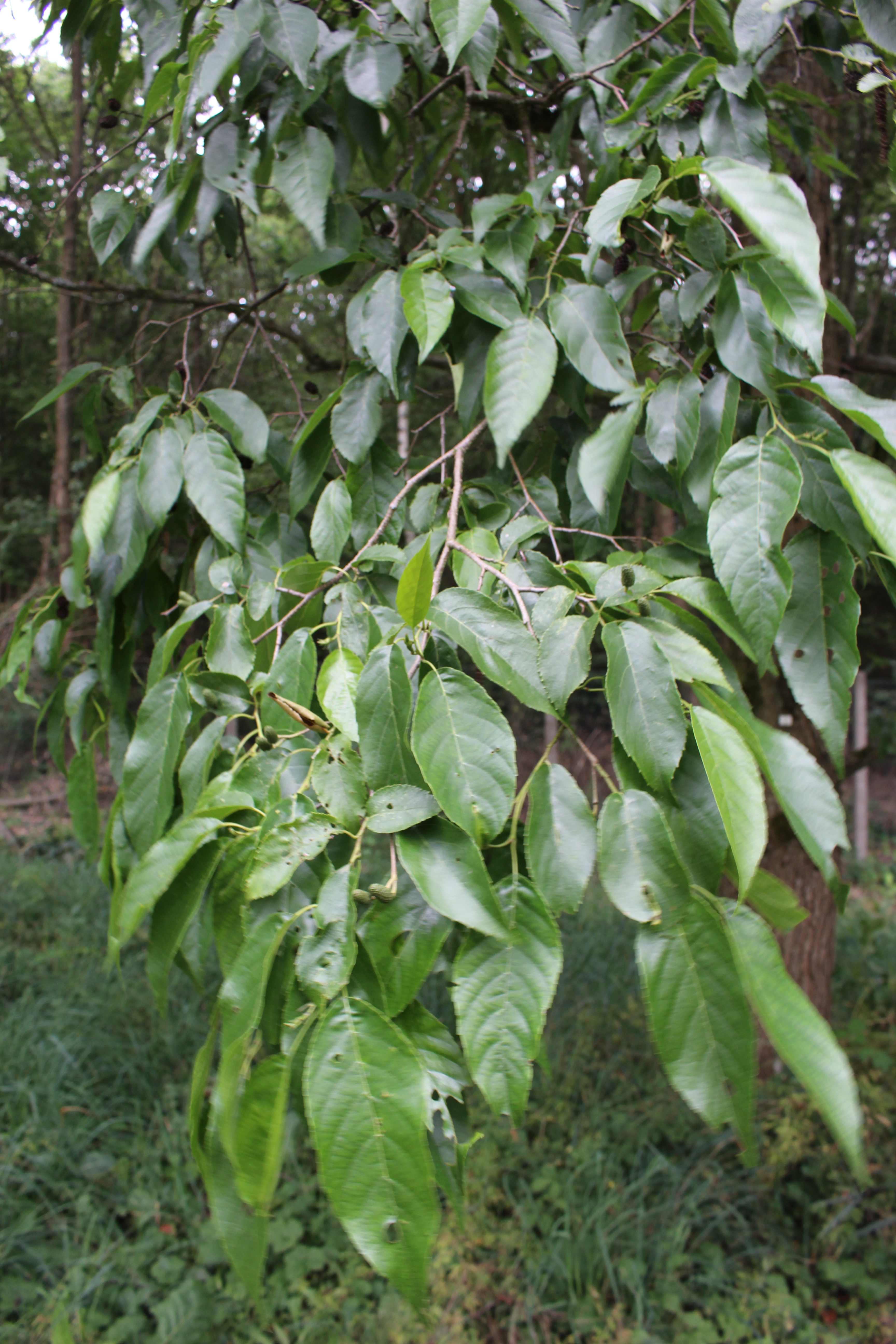 Leaves of Alnus x spaethii in the botanical gardens in Marburg, Germany.